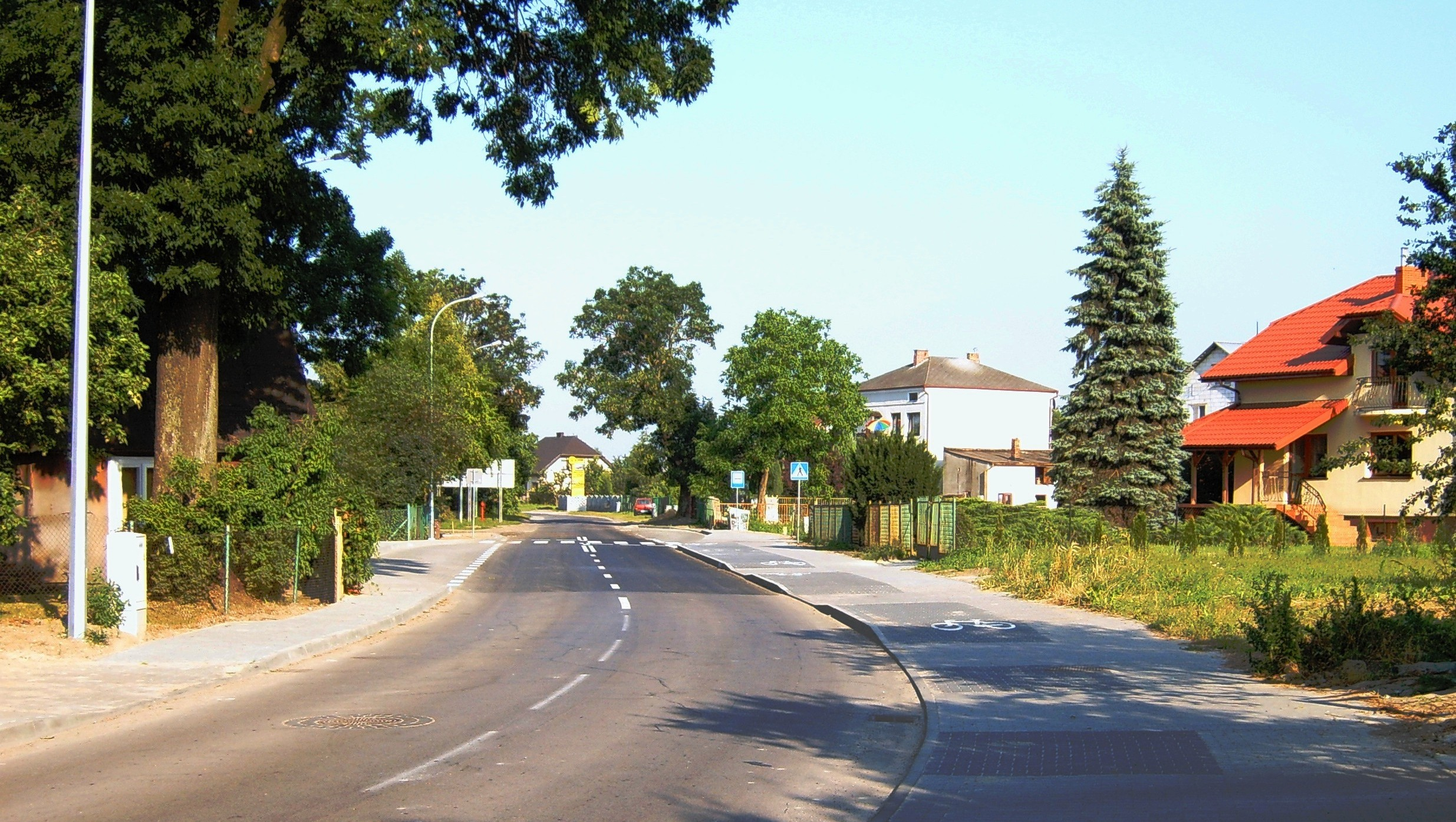 Majdan Street in Zamość, Poland